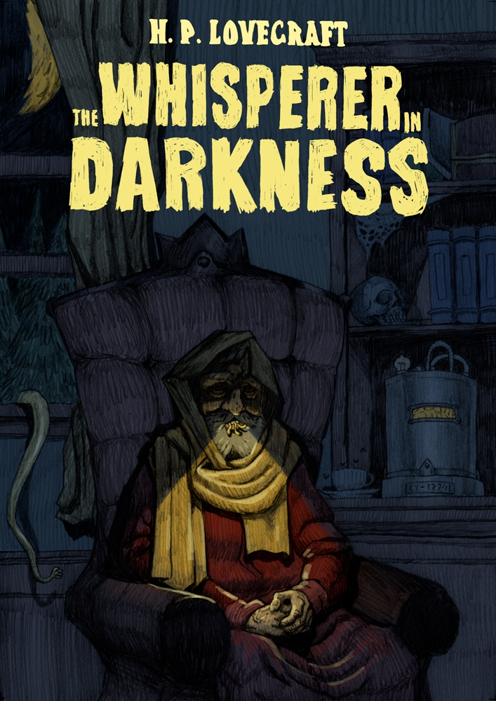 Alexander Moore's artwork based on H. P. Lovecraft's story The Whisperer in Darkness.